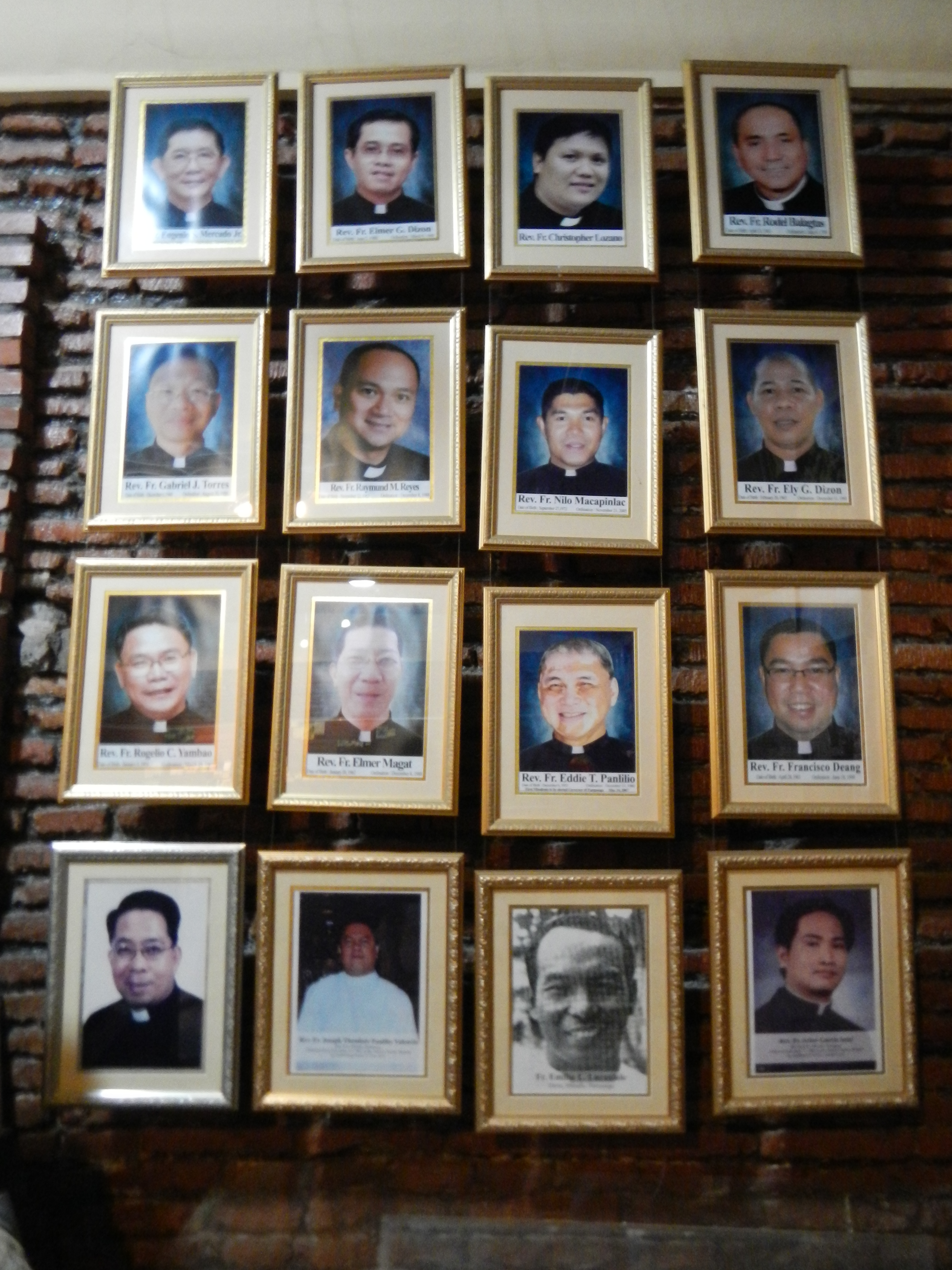 [1]The 1721 Santa Monica Parish Church, commonly known as the Minalin Church is a Baroque (heritage) Church, located in 2019 Minalin, Pampanga (San Nicolas). It is a Spanish-era church declared a National Cultural Treasure by the National Museum of the Philippines and the National Commission for Culture and the Arts (Philippines).